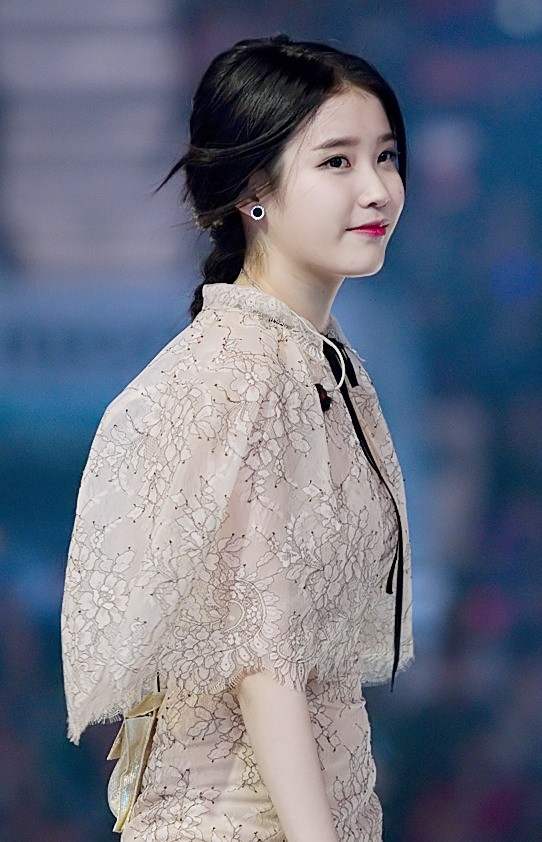 IU at Melon Music Awards, 13 November 2014